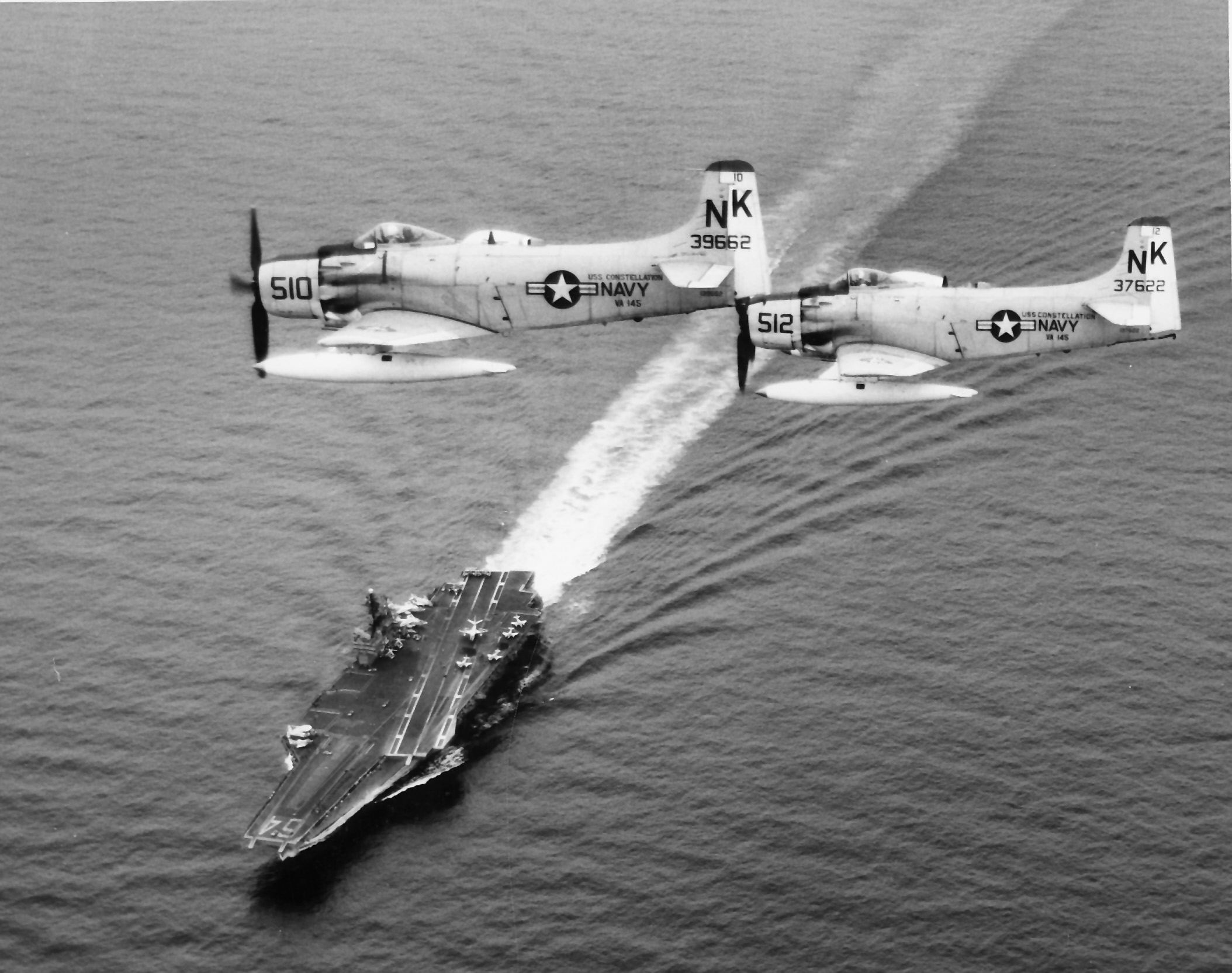 Two U.S. Navy Douglas A-1H Skyraider (BuNo 139622, 139662) of Attack Squadron 145 (VA-145) "Swordsmen" in flight overt the aircraft carrier USS Constellation (CVA-64). VA-145 was assigned to Attack Carrier Air Wing 14 (CVW-14) aboard the Constellation between 1962 and early 1965.